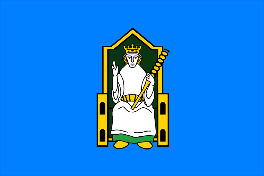 Flag of Mide